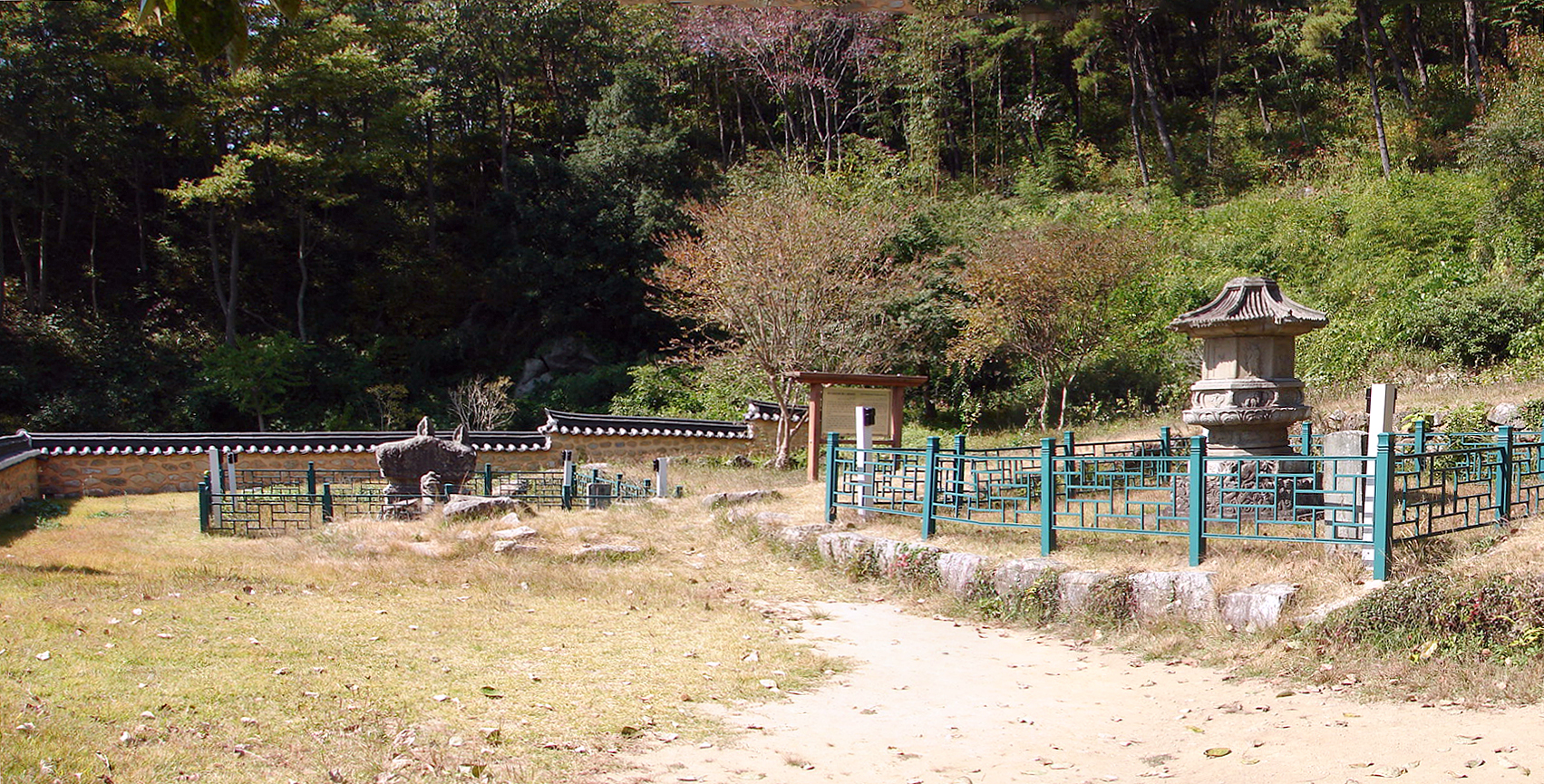 Ssangbongsa, or Ssangbong Temple (Ssang means 'twin' and Bong means 'peak' ), derives its name from the pair of twin peaks on the mountain behind this Buddhist temple. Ssangbongsa in located in Hwasun County, South Jeolla Province, South Korea. Ssangbongsa was built by Zen Priest Cheolgam in 868 during the Unified Silla Period.